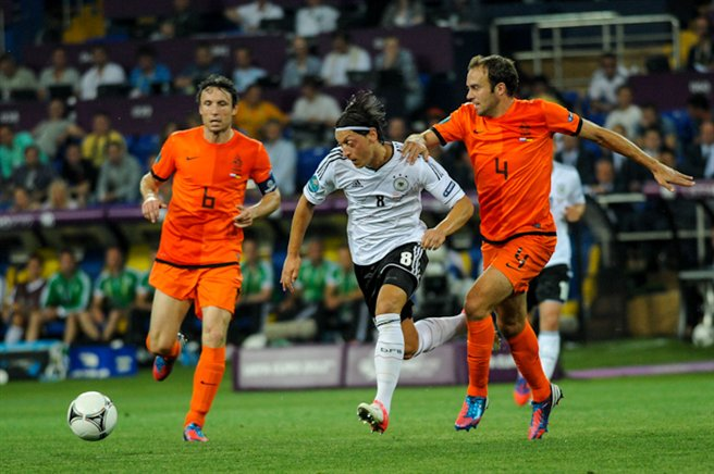 Mesut Özil and Joris Mathijsen at Euro 2012 match Netherlands-Germany